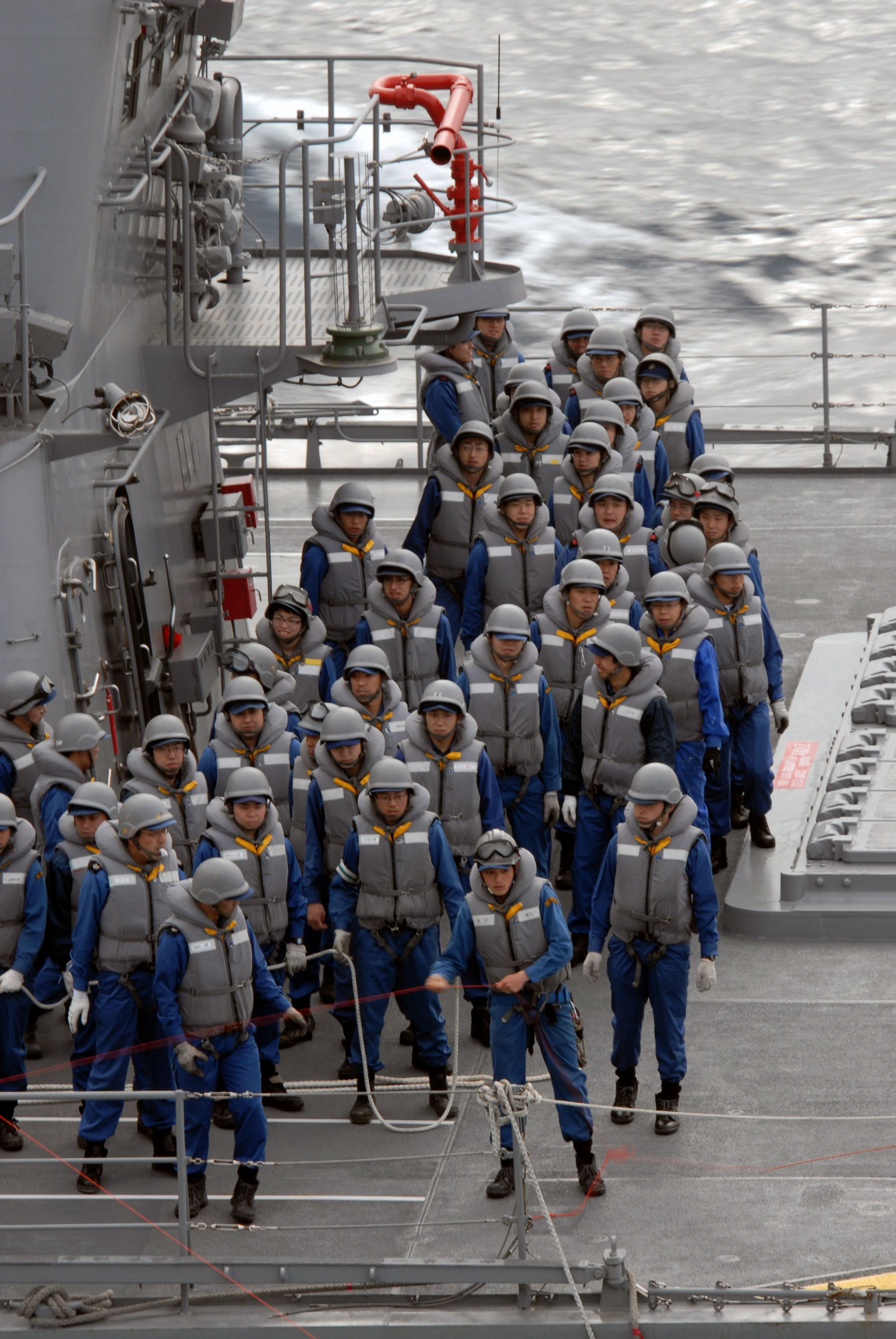 On board the Japanese Maritime Self Defense Force (JMSDF) Asagiri Class Destroyer JS Yuugiri (DD 153), sailors prepare to heave to on messenger lines during a Refueling at Sea exercise with U.S. Navy Ships assigned to the Ronald Reagan Carrier Strike Group on March 17, 2007. The Ronald Reagan Carrier Strike Group and embarked Carrier Air Wing 14 are currently underway in the Pacific Ocean in support of operations in the western Pacific.